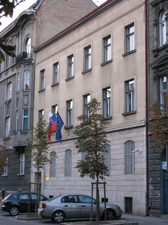 Slovakian Embassy in Zagreb